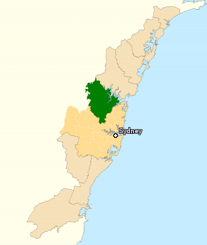 This image incorporates data that is: © Commonwealth of Australia (Australian Electoral Commission) 2009 Division of Berowra 2010